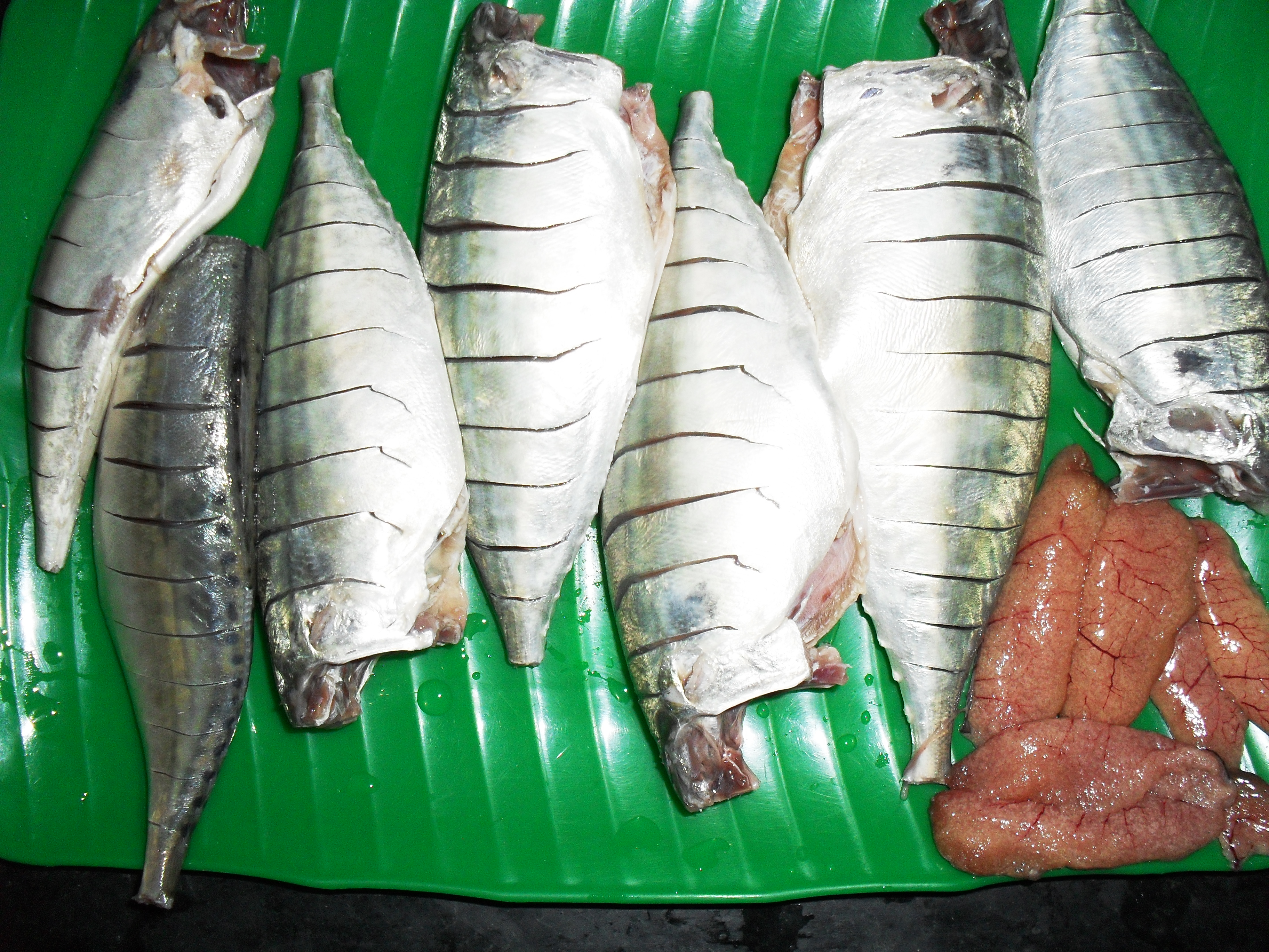 Indian Mackerel, cleaned with gashes and its eggs. The head portion is removed.